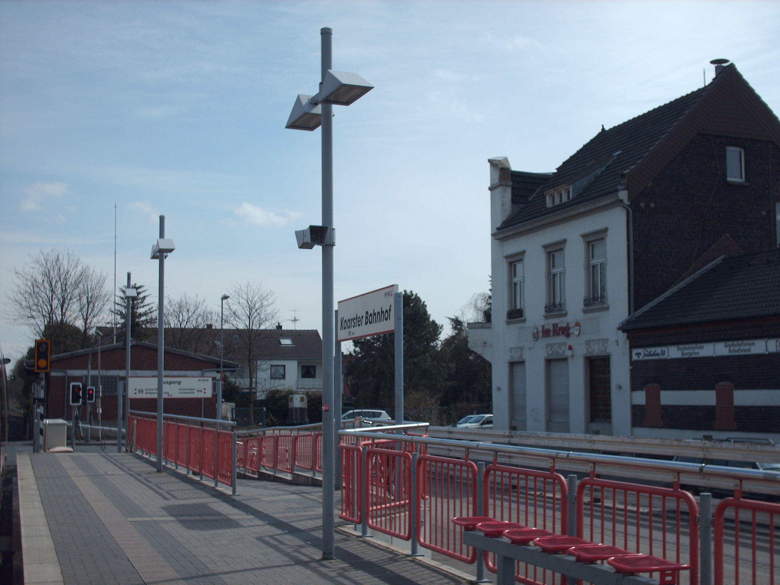 Kaarst Kaarster Bahnhof station, Kaarst, Germany check usage